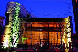 Synagogue on Bolshaya Bronnaya